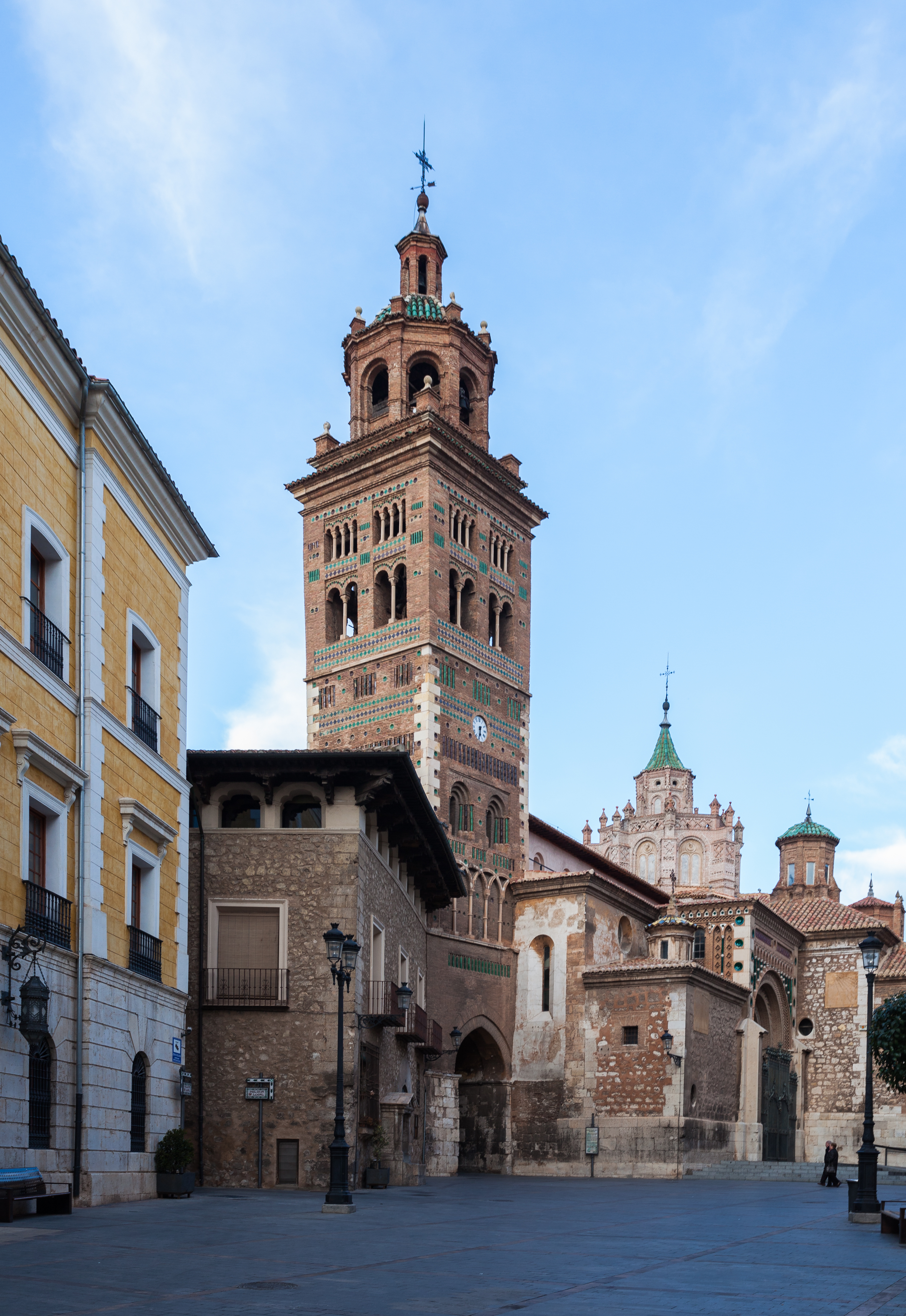 Cathedral, Teruel, Spain